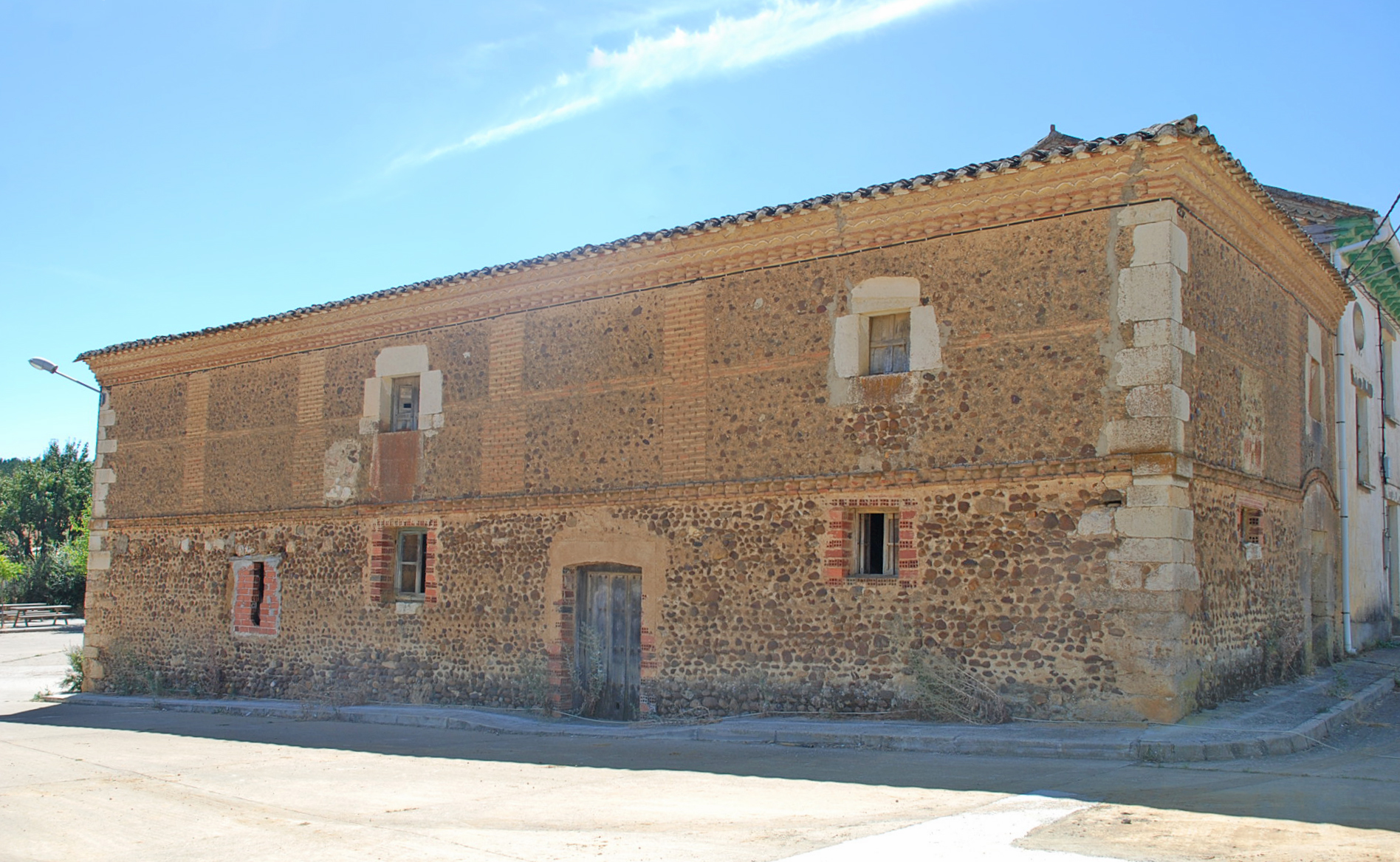 Manor house in Valles de Valdavia (Palencia, Castile and León).